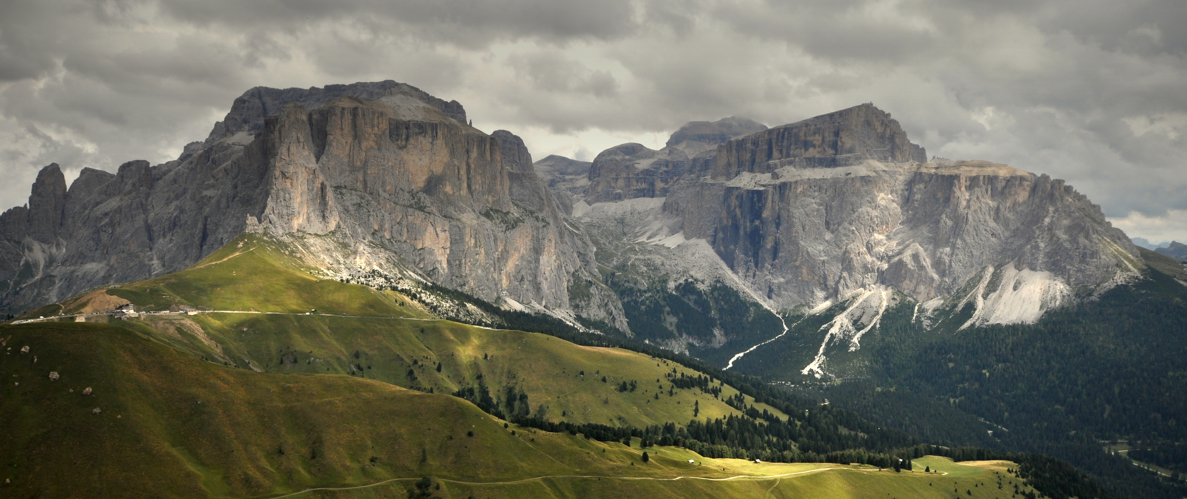 Sella Group - Aug 2012